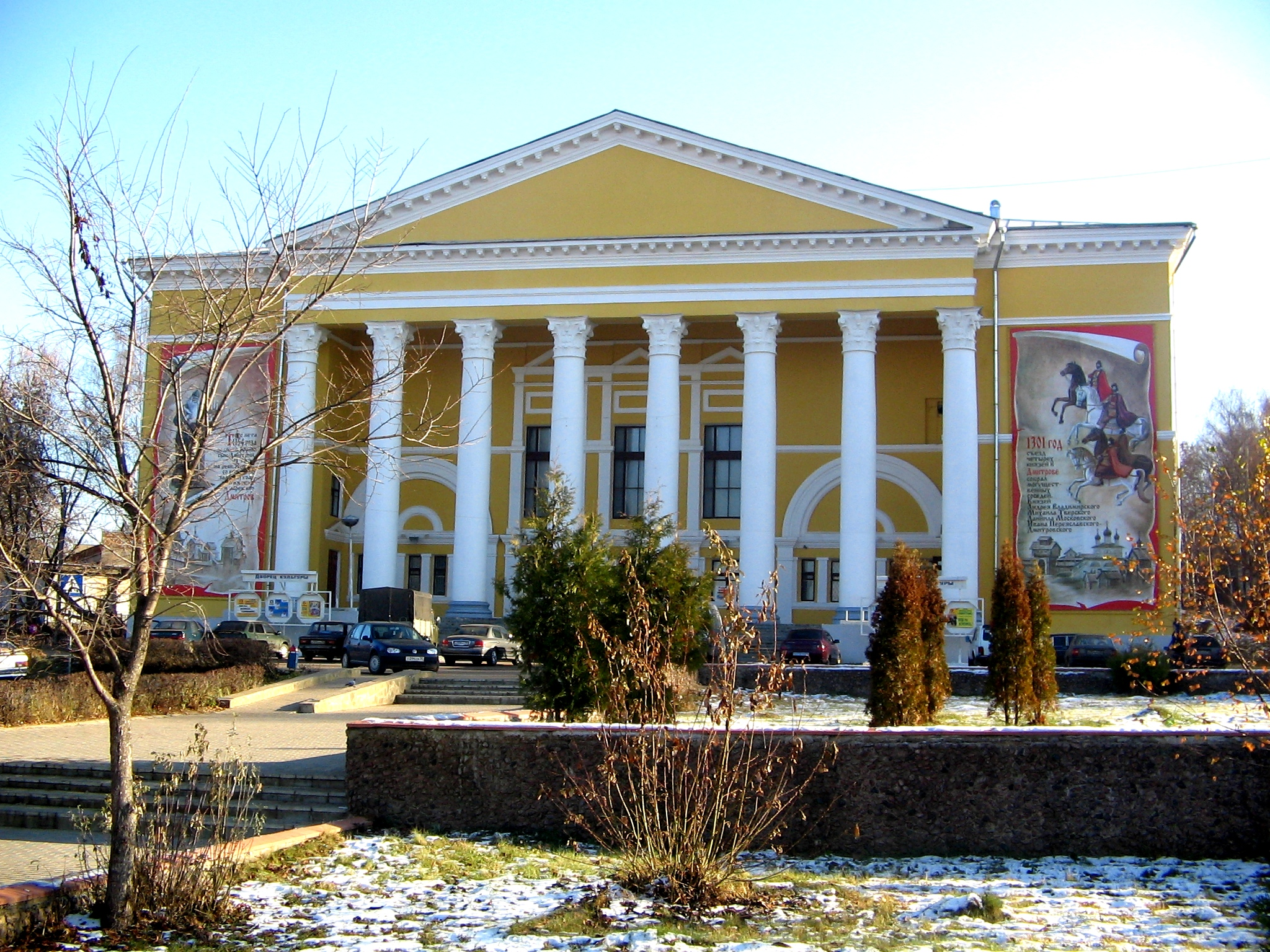 Дворец культуры (Дмитров)